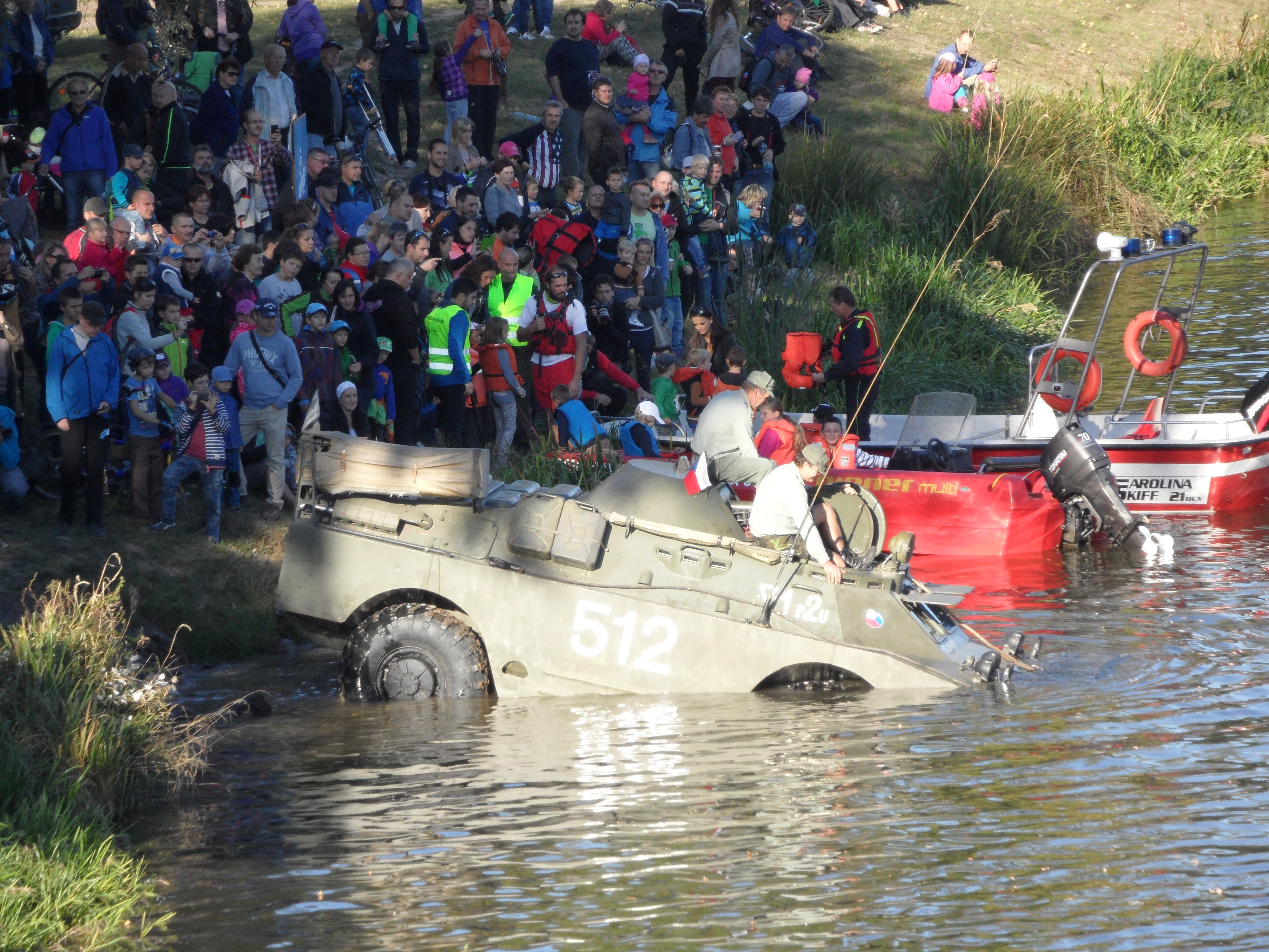 Retro City. Friday: Dynamic Presentations. A01. Entrance to Labe (Elbe). Pardubice, Pardubice District, the Czech Republic.